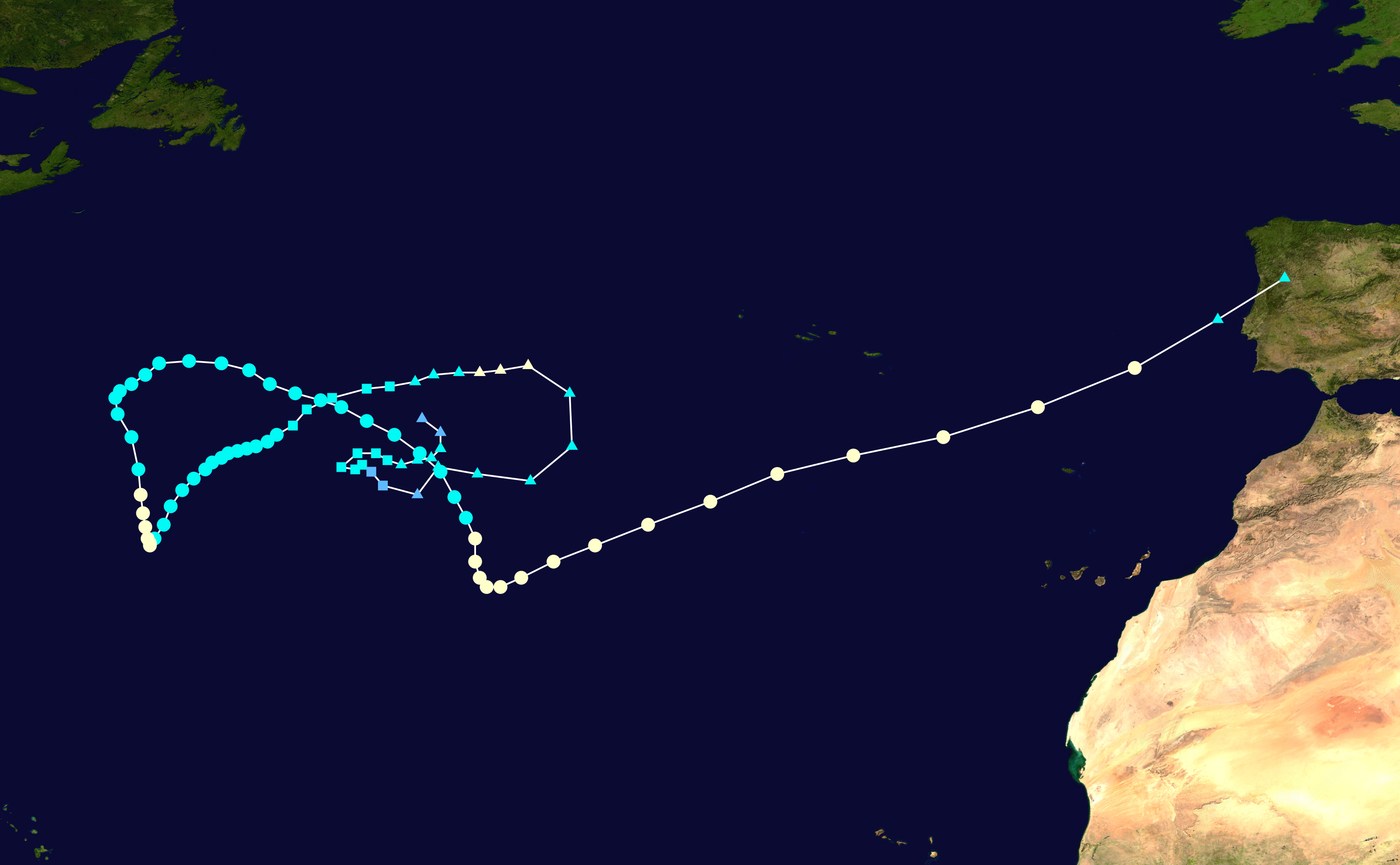 Track map of Hurricane Leslie of the 2018 Atlantic hurricane season. The points show the location of the storm at 6-hour intervals. The colour represents the storm's maximum sustained wind speeds as classified in the Saffir–Simpson scale (see below), and the shape of the data points represent the nature of the storm, according to the legend below. Saffir–Simpson scale Tropical depression≤38 mph≤62 km/h Category 3111–129 mph178–208 km/h Tropical storm39–73 mph63–118 km/h Category 4130–156 mph209–251 km/h Category 174–95 mph119–153 km/h Category 5≥157 mph≥252 km/h Category 296–110 mph154–177 km/h Unknown Storm type Tropical cyclone Subtropical cyclone Extratropical cyclone / Remnant low / Tropical disturbance / Monsoon depression